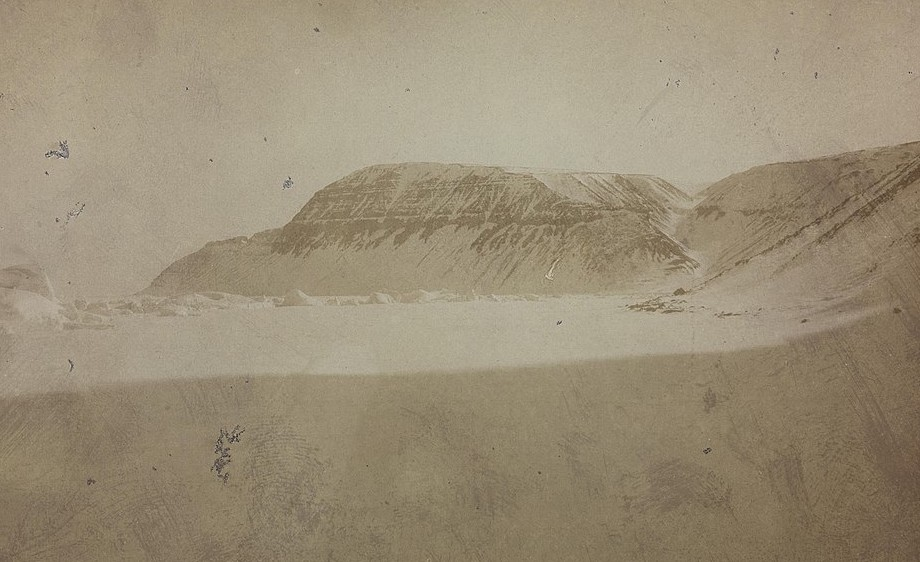 Bildet er hentet fra Nasjonalbibliotekets bildesamling. Anmerkninger til bildet var: Tittel hentet fra bildets bakside